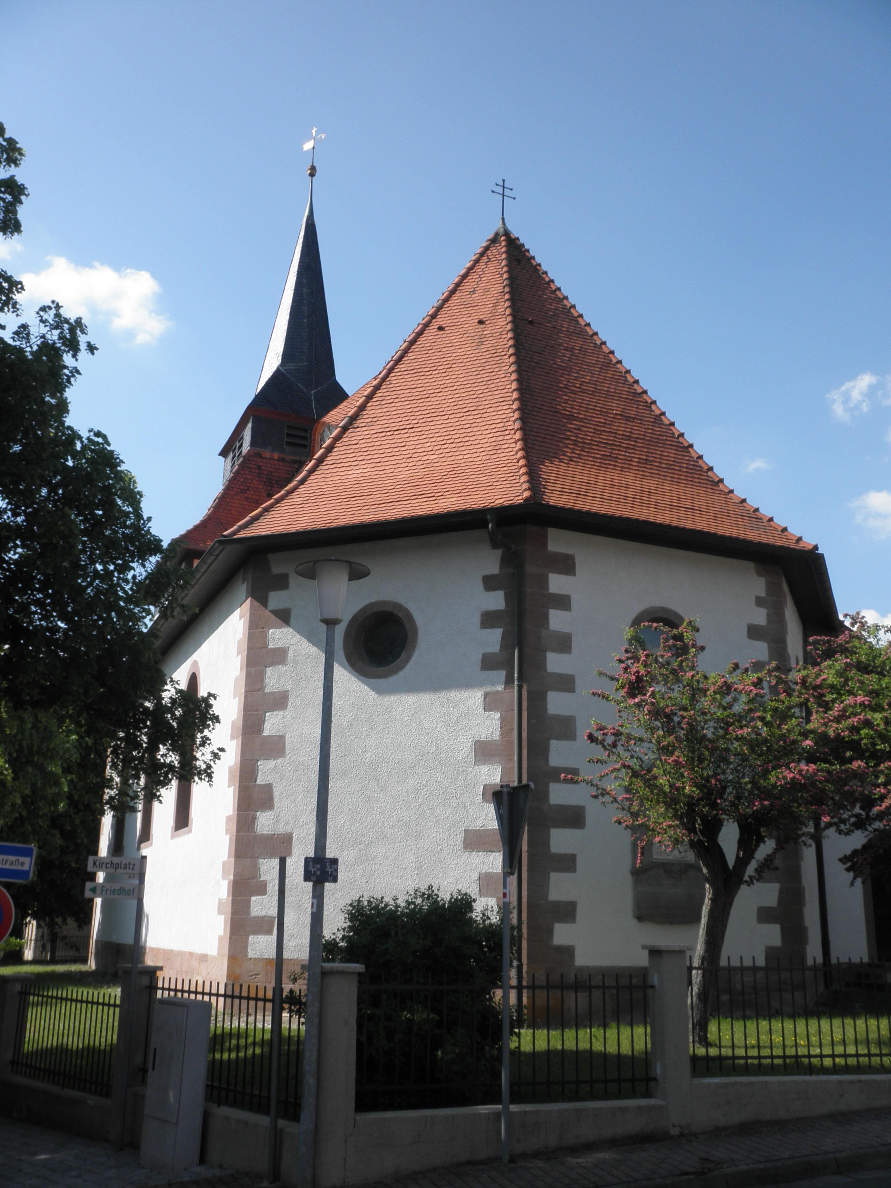 Church in Wilbich in Thuringia